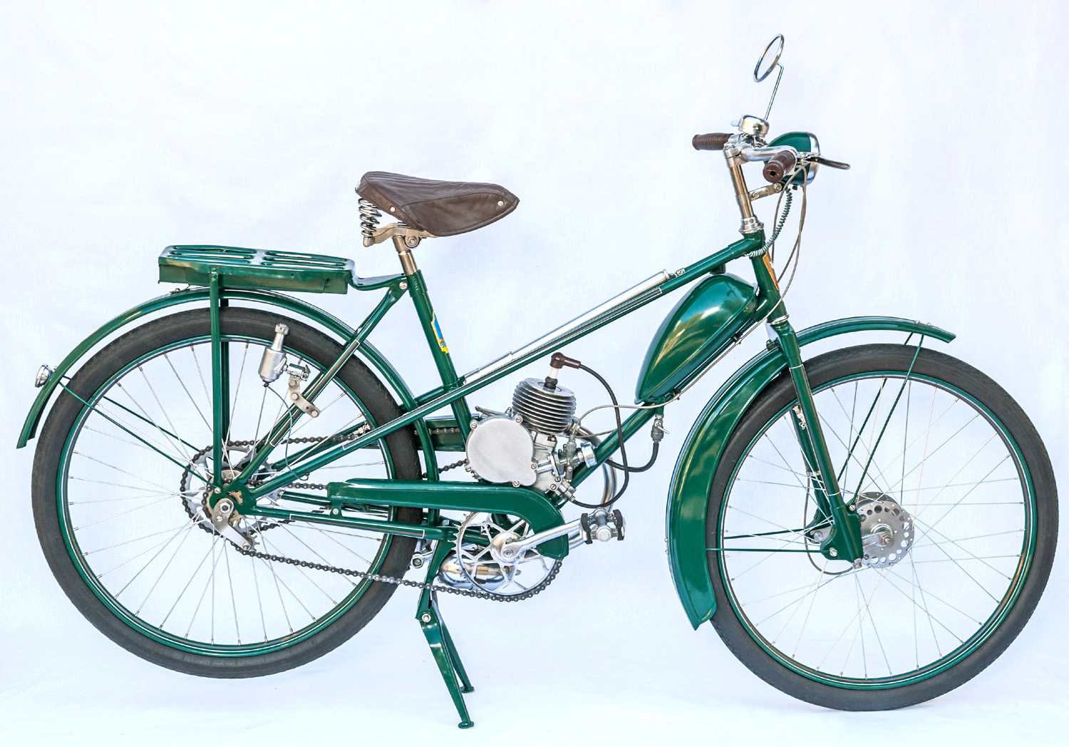 USSR motorized bicycle W-902 (1960) with D-4 engine